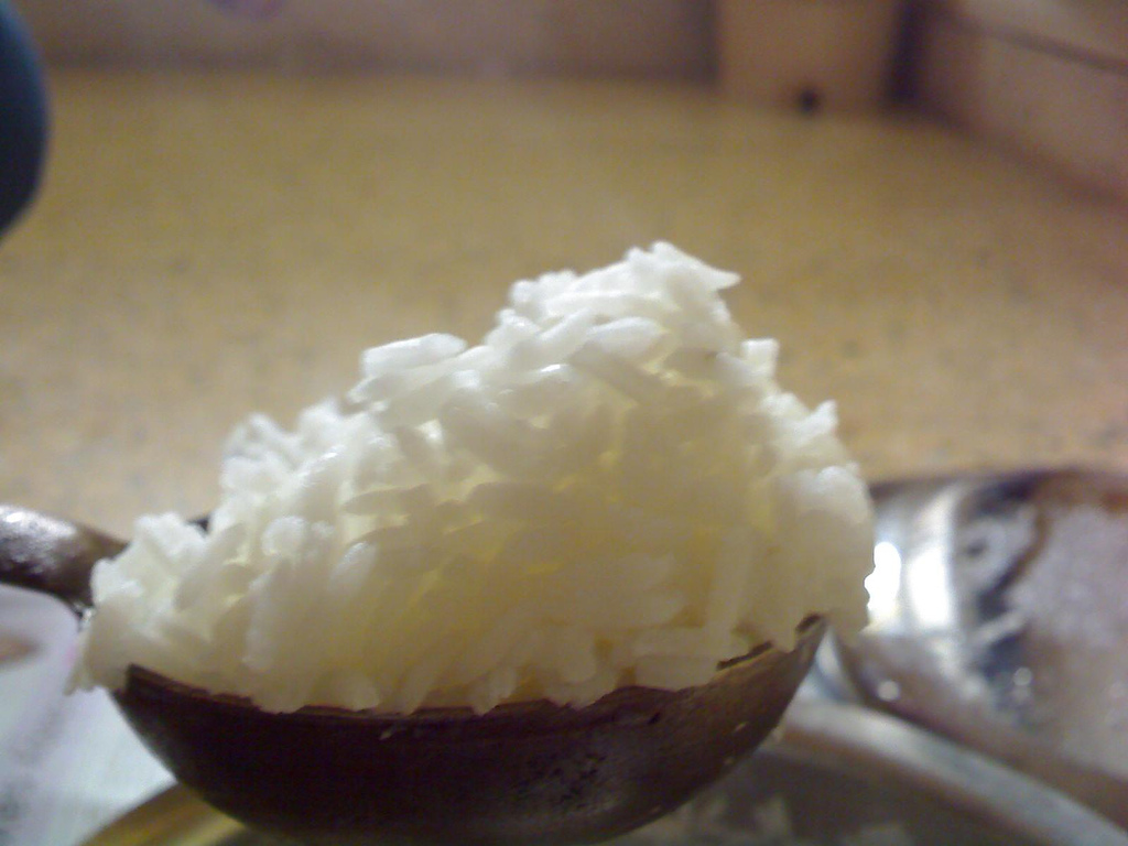 Boiled white rice